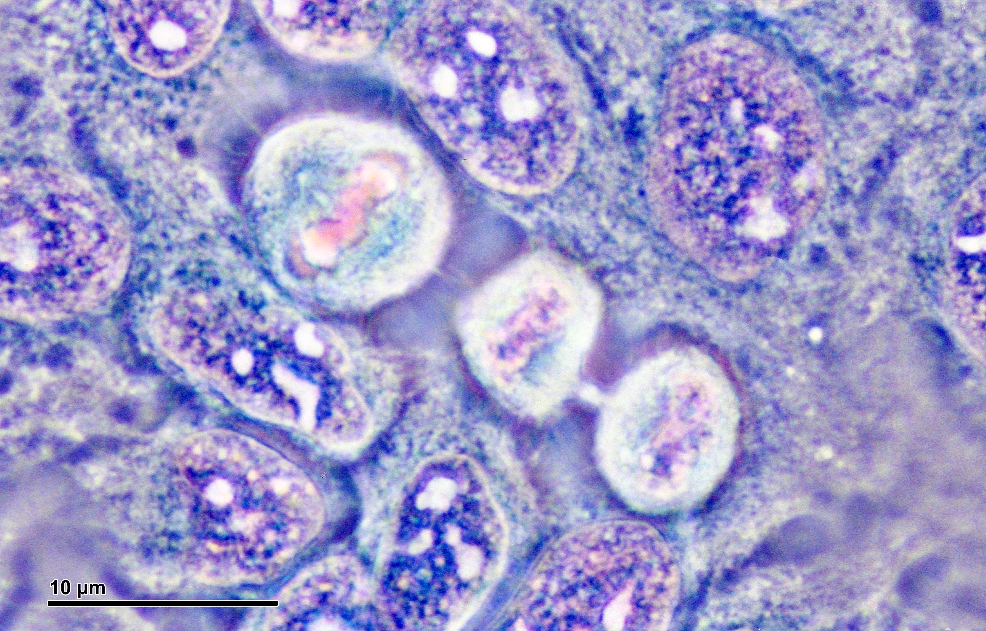 Cell culture (HeLa cells): Cell culture (HeLa cells) - metaphase, telophase. Optical microscopy technique: Negative phase contrast. Magnification: 6000x (for picture width 26 cm ~ A4 format).